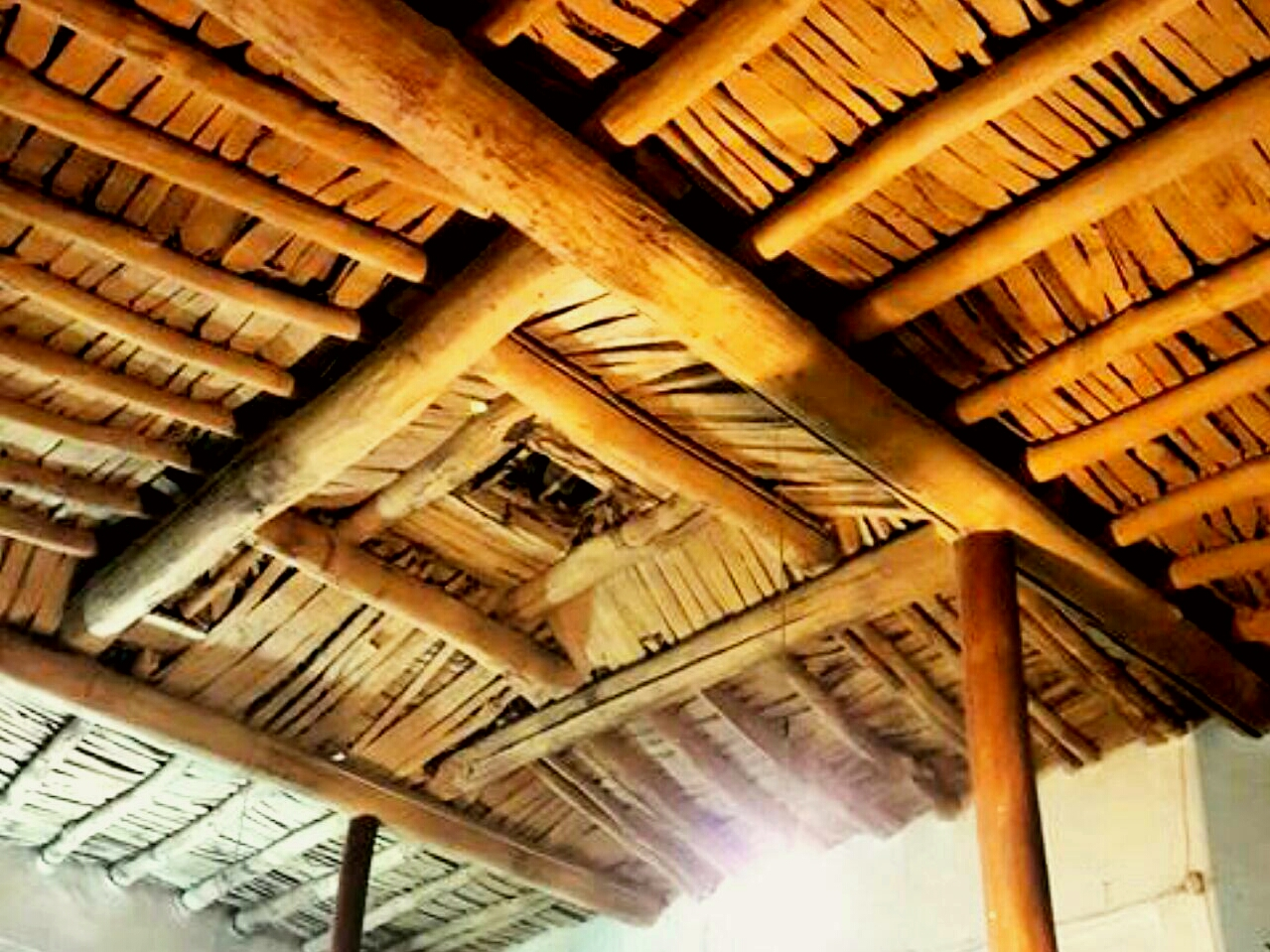 Gorji push (Georgian covering) roof in Dashkasan, Iran